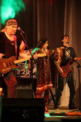 Гран-при 2006 года группа «Дом художника», г. Рязань